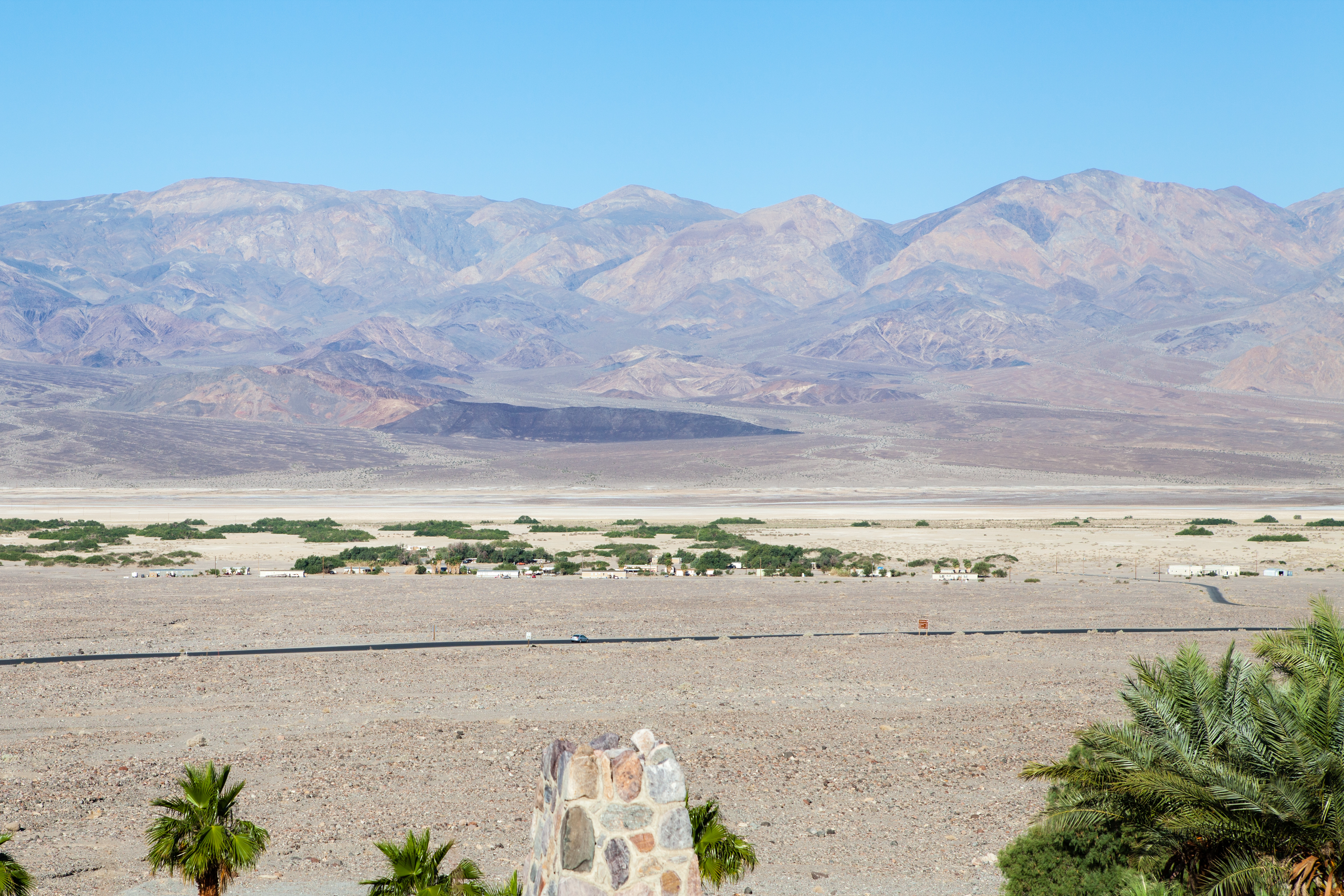 Death Valley Indian Community reservation of the federally recognized tribe of Death Valley Timbisha Shoshone Band of California, within Death Valley National Park. Looking west toward the village from a hill one mile away across highway 190.